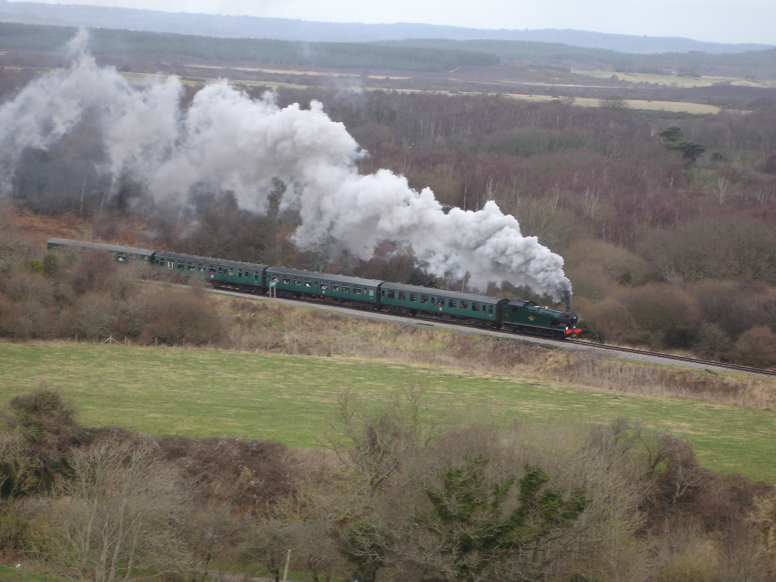 A train on the Swanage Railway seen from Corfe Castle